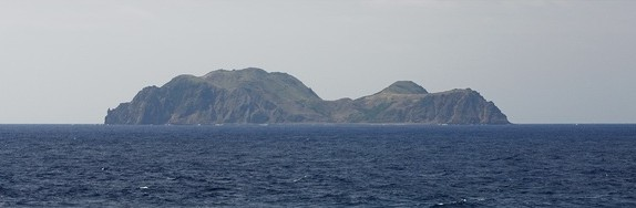 Lesser Orchid Island is a small volcanic island near the main Lanyu.